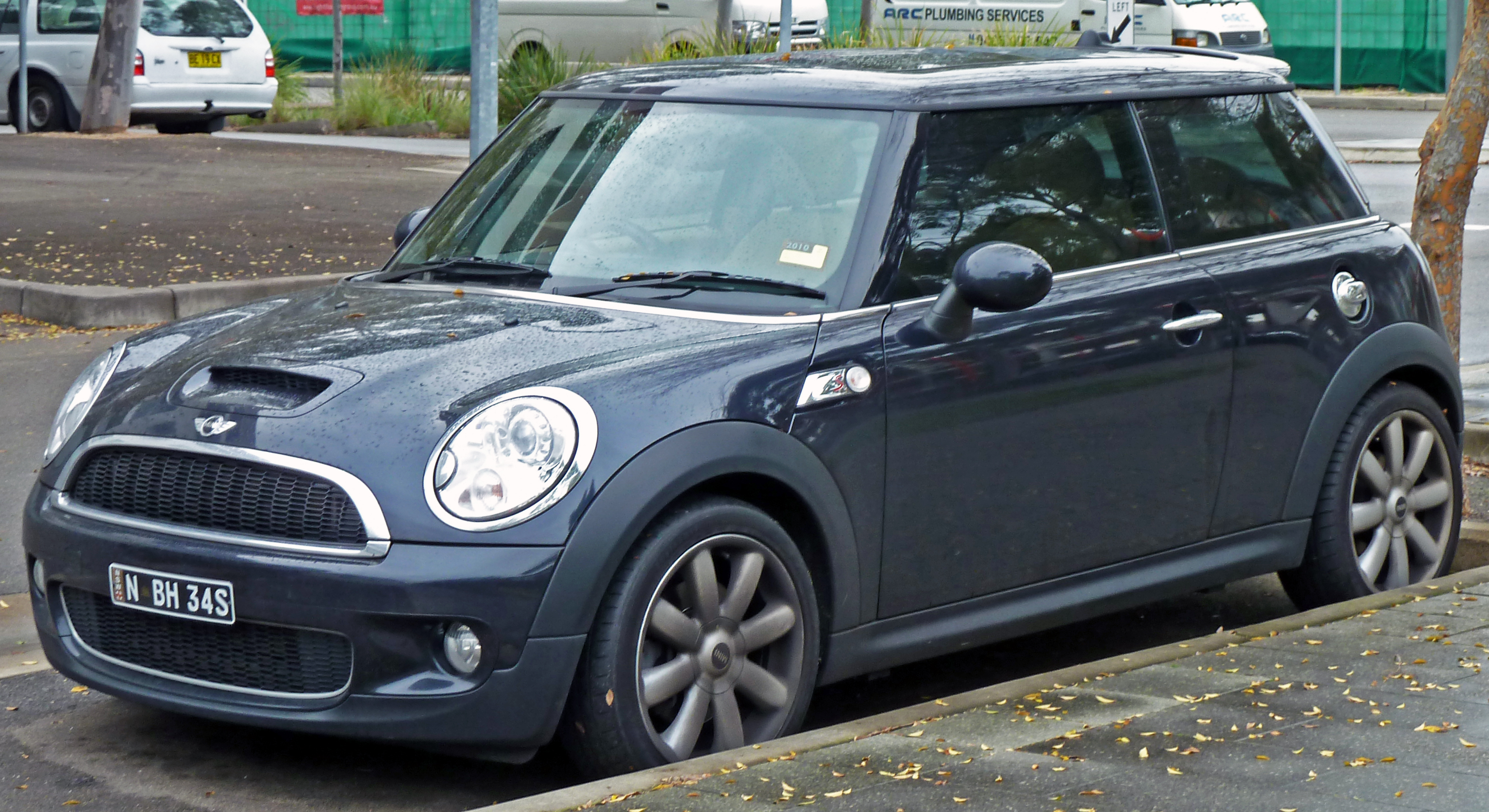 2007–2010 Mini Hatch (R56) Cooper S hatchback. Photographed in Zetland, New South Wales, Australia.